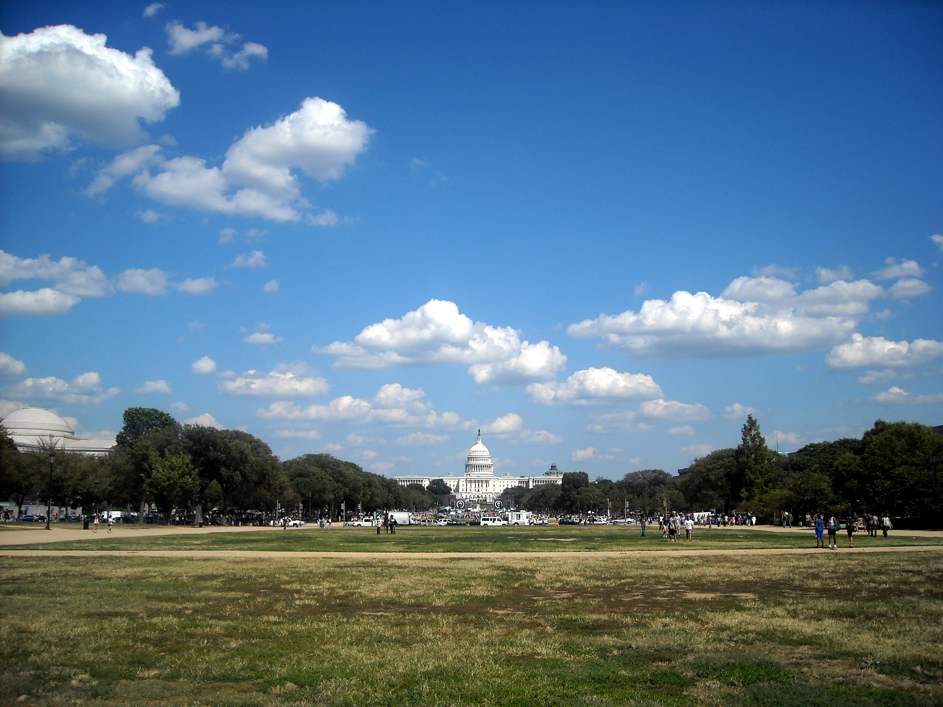 The National Mall, listed on the National Register of Historic Places, and United States Capitol, a National Historic Landmark, located in Washington, D.C.